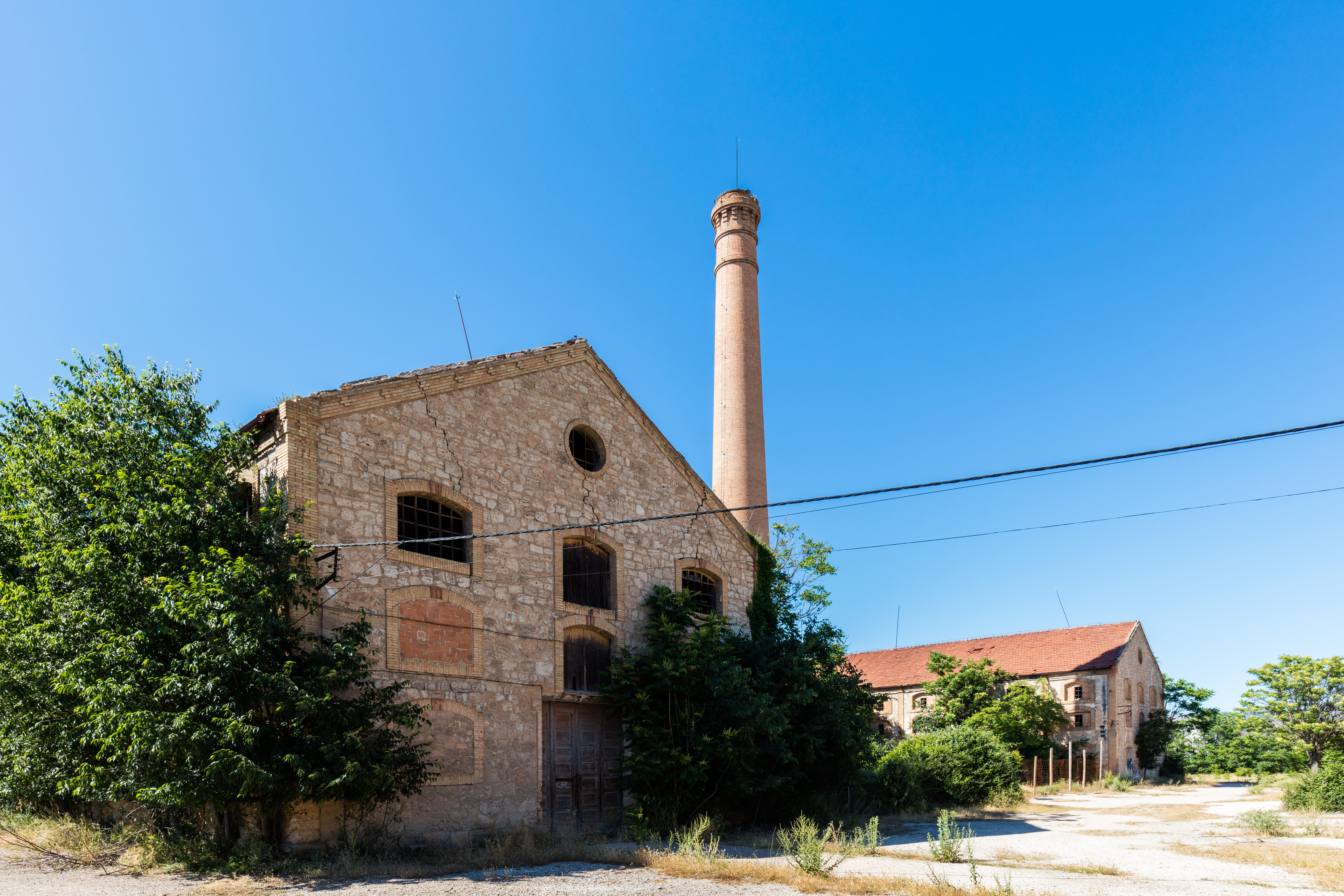 Antigua azucarera labradora, Calatayud, Spain.